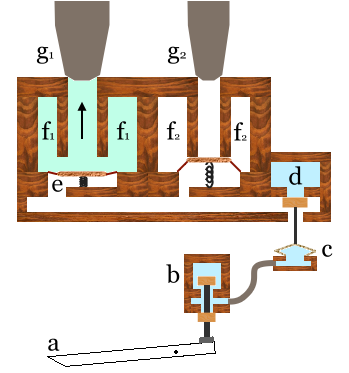 Technical drawing of the inside of an organ (now playing)